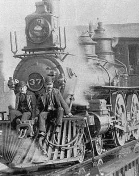 Two hobos ride on the front grid of steam locomotive.